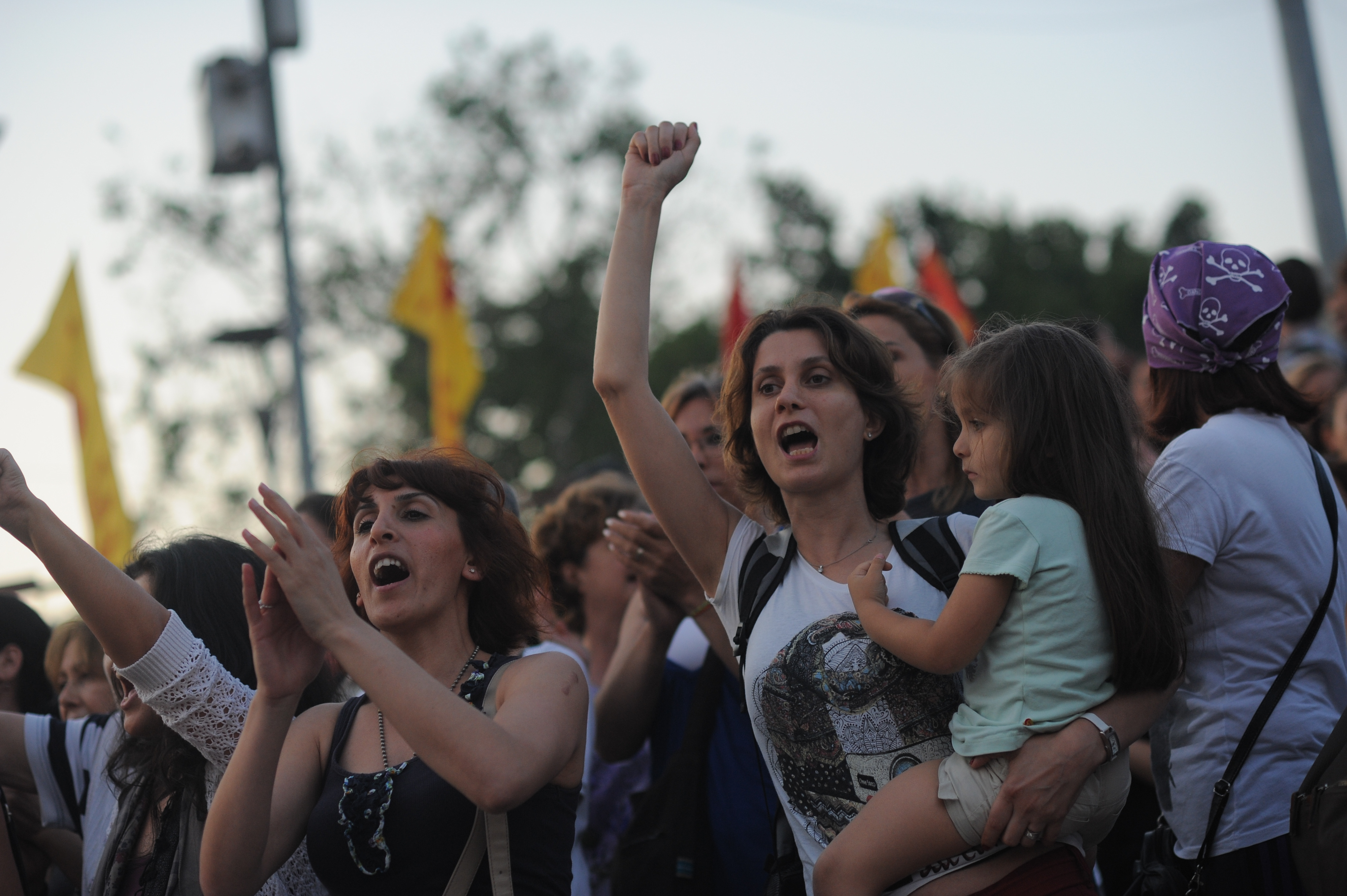 Taksim square peaceful protests. Events of June 16, 2013.